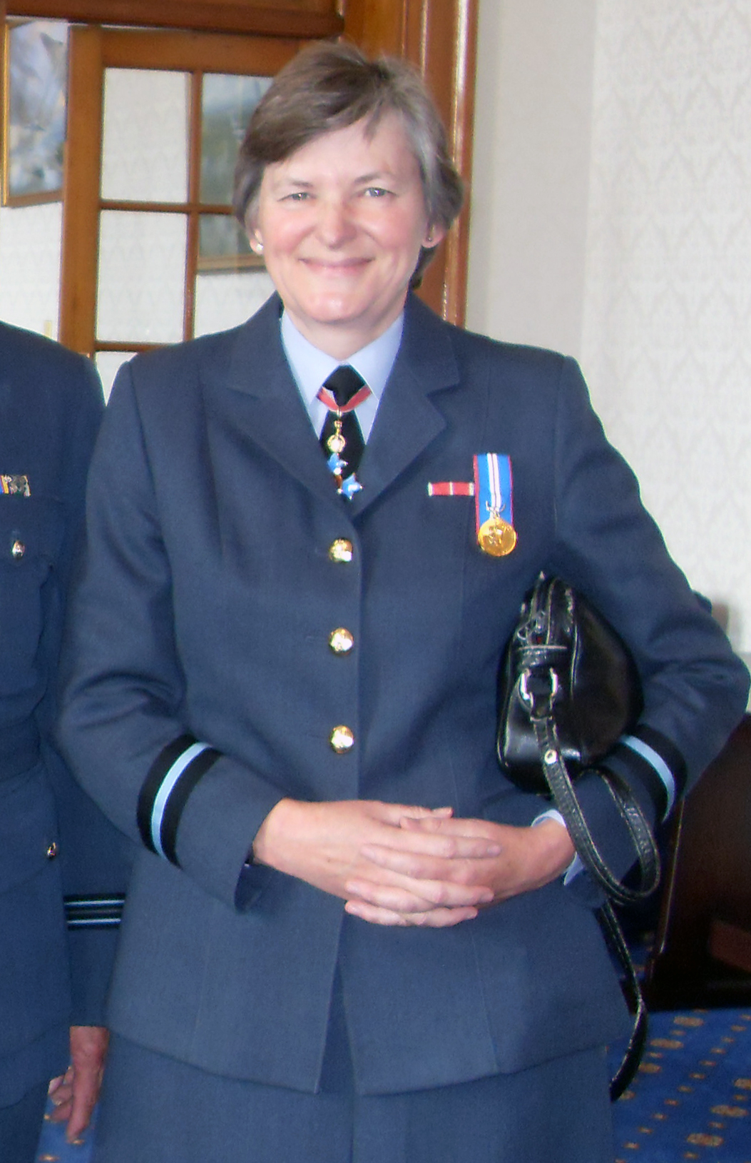 Air Commodore Ian Stewart RAF, Flt Lt A.R.T. Bennett RAF VR(T) and Air Commodore Barbara Cooper RAF at RAFC Cranwell